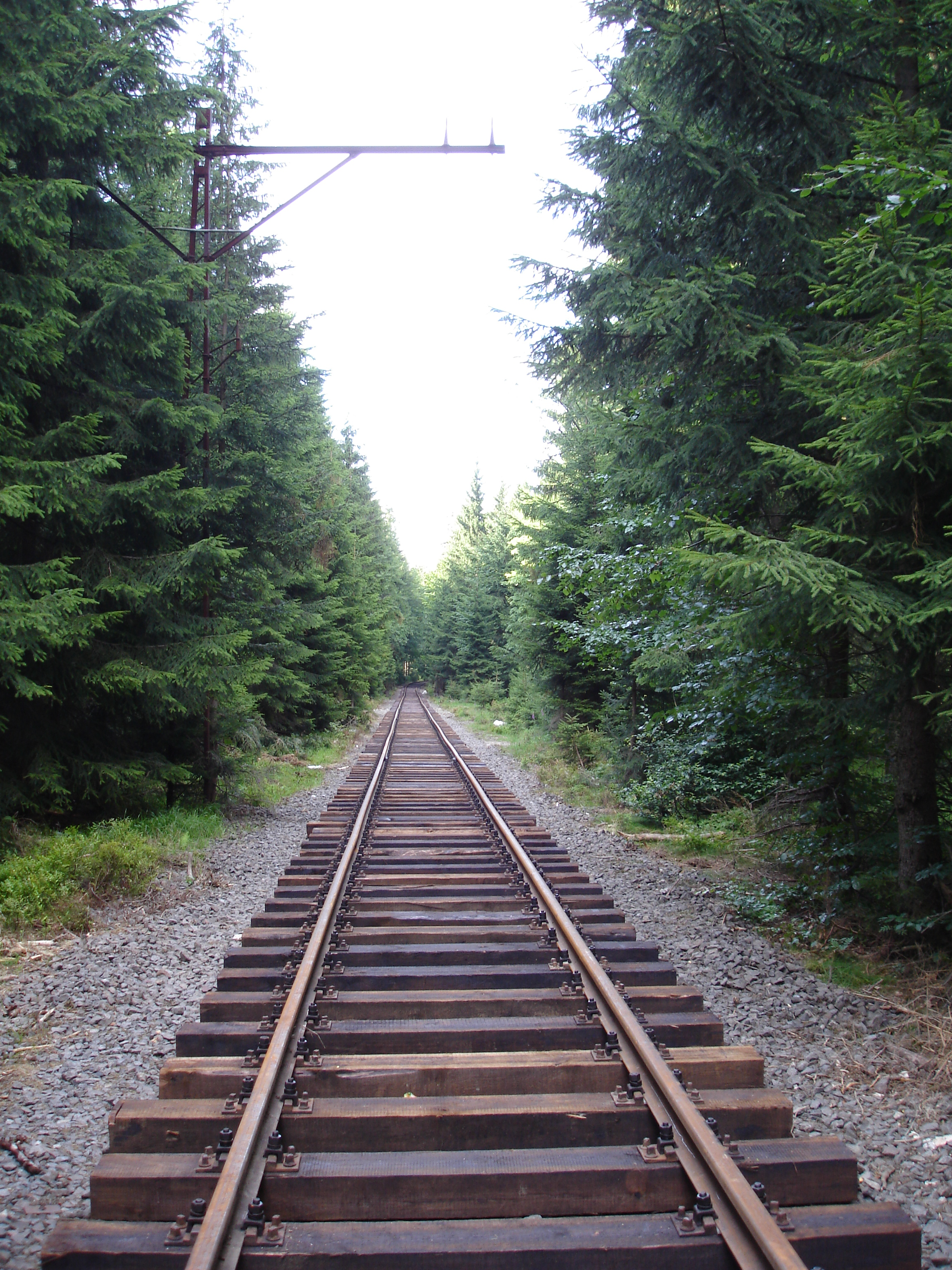 Railway line Jelenia Gora-Korenov: new track near station Nowy Świat